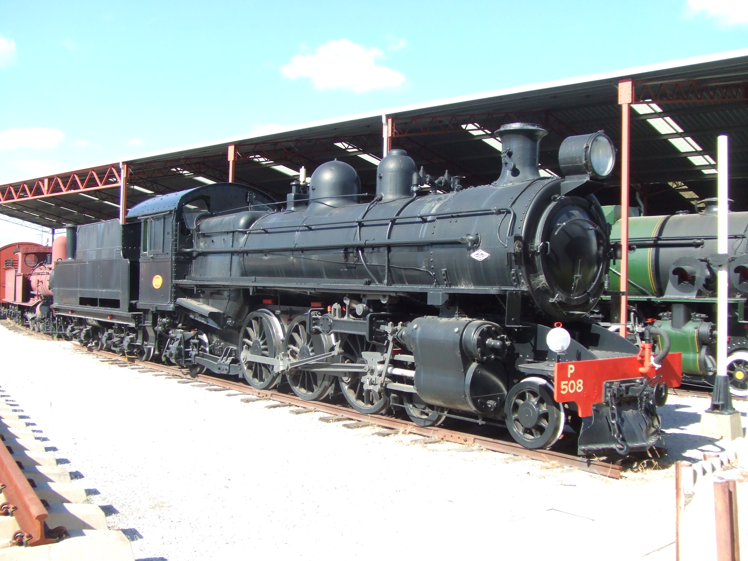 WAGR "P" 4-6-2 No.508 (North British 23150/1924). 4/06